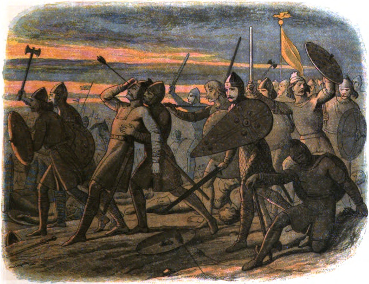 The death of Harold Godwinson at the Battle of Hastings.